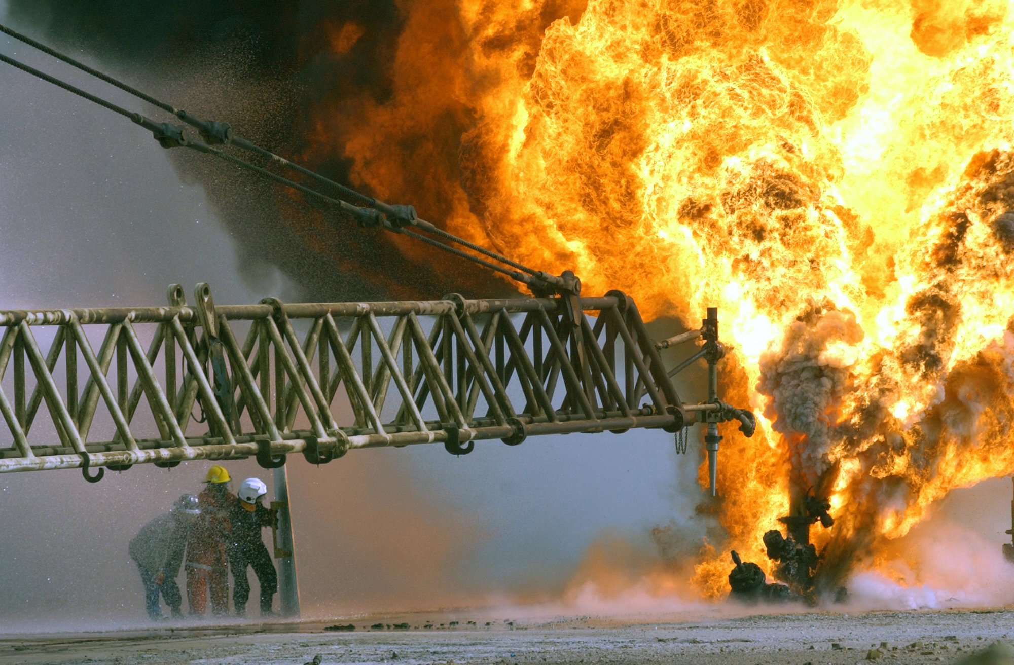 Southern Iraq (Mar. 27, 2003) -- Kuwaiti firefighters fight to secure a burning oil well in the Rumaila oilfields, set ablaze by Iraqi military forces. Efforts are underway to extinguish fires and protect the region from environmental disaster. Protection of these fields is considered critical to the Iraqi people in support of Operation Iraqi Freedom. Operation Iraqi Freedom is the multi-national coalition effort to liberate the Iraqi people, eliminate Iraqi's weapons of mass destruction, and end the regime of Saddam Hussein. U.S. Marine Corps photo by Pfc. Mary Rose Xenikakis. (RELEASED)